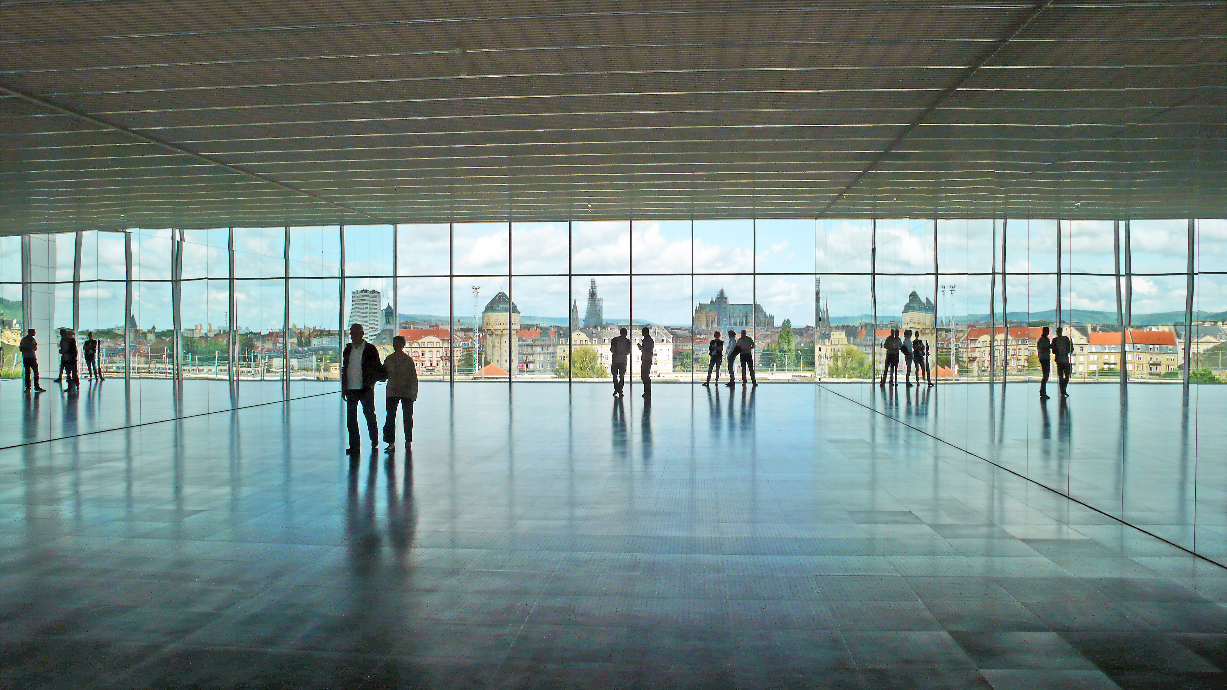 Centre Pompidou in Metz(France) - Interior View